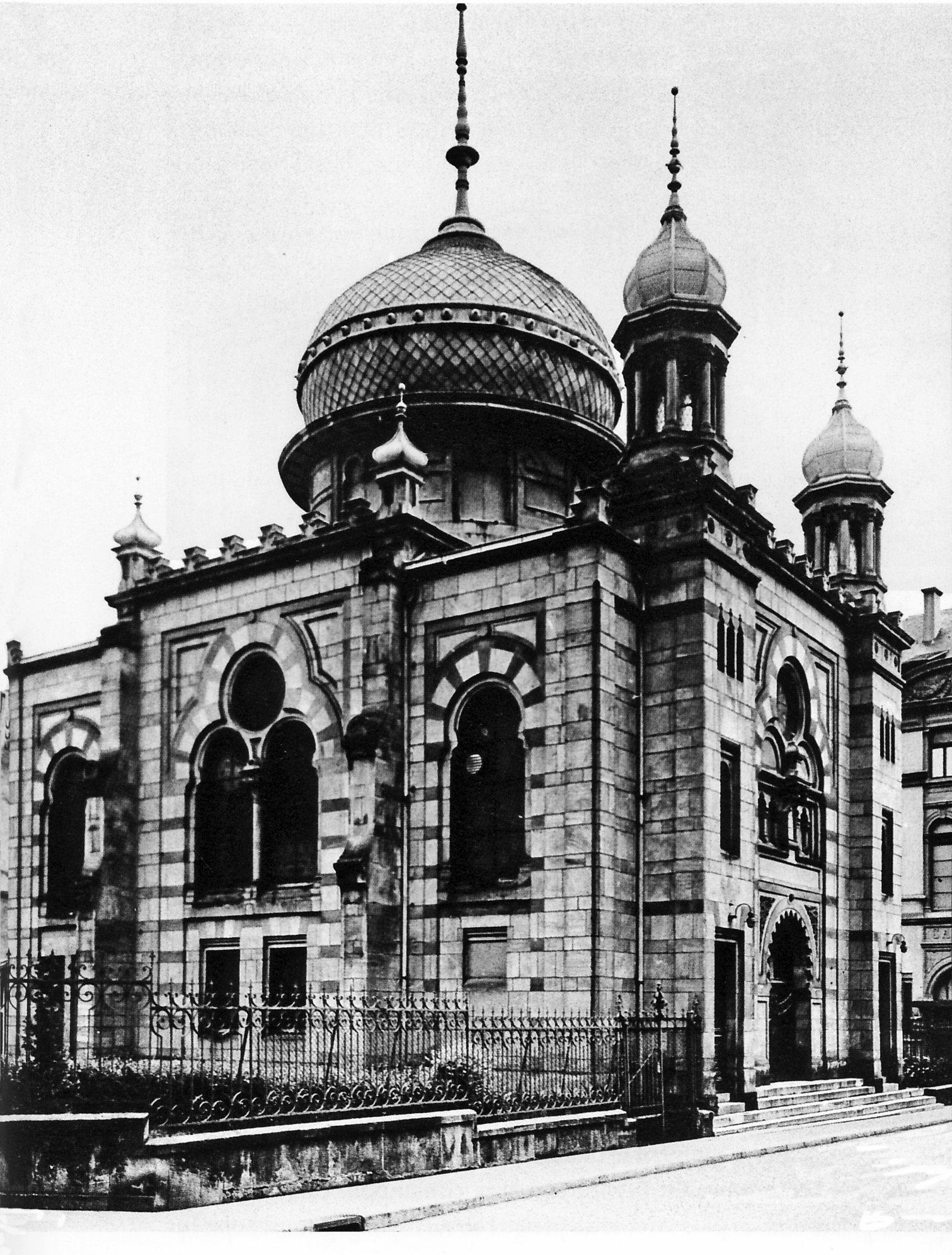 Luxembourg City: ancient synagogue rue Notre-Dame, inaugurated in 1896, destroyed by the nazis in 1943.